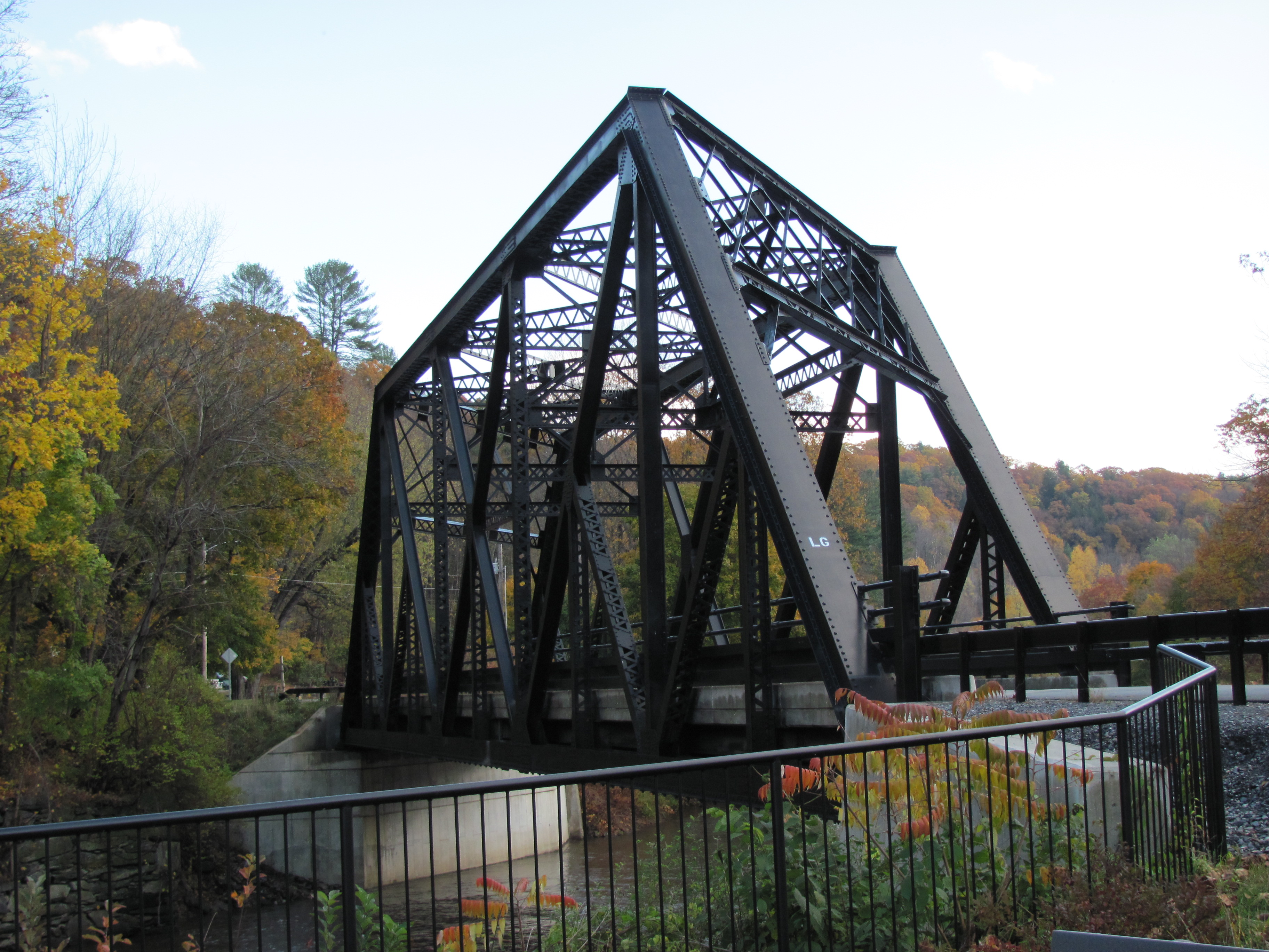 West side of Gould's Mill Bridge, west side of Paddock Road, Springfield, Vermont.